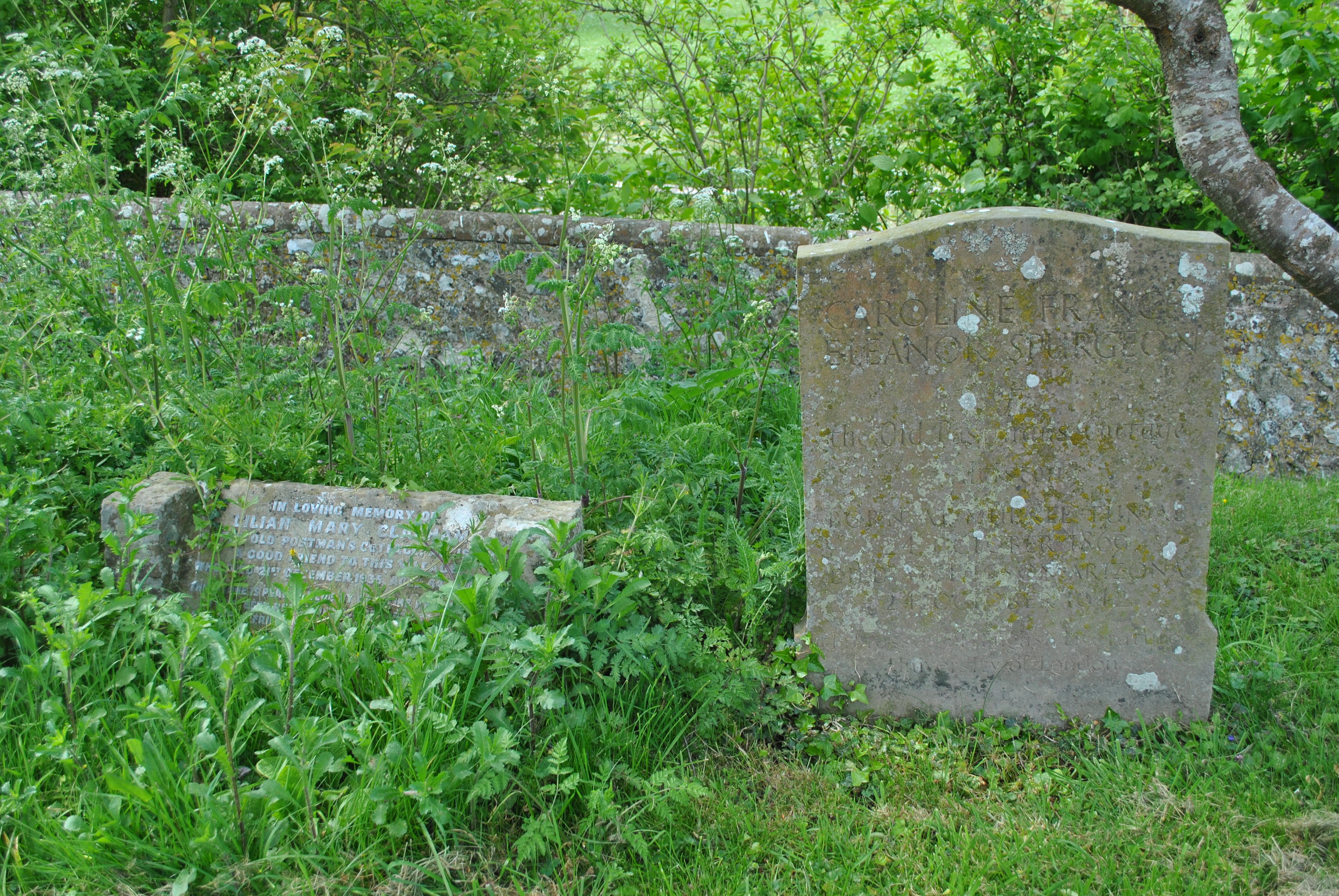 Gravestone of Caroline Frances Eleanor Spurgeon (right) alongside that of her longtime companion Lilian Mary Clapham. Alciston Parish Church, Alciston, 2017, Originally published in Queer Places, Vol. 2.1: Retracing the Steps of LGBTQ people around the World